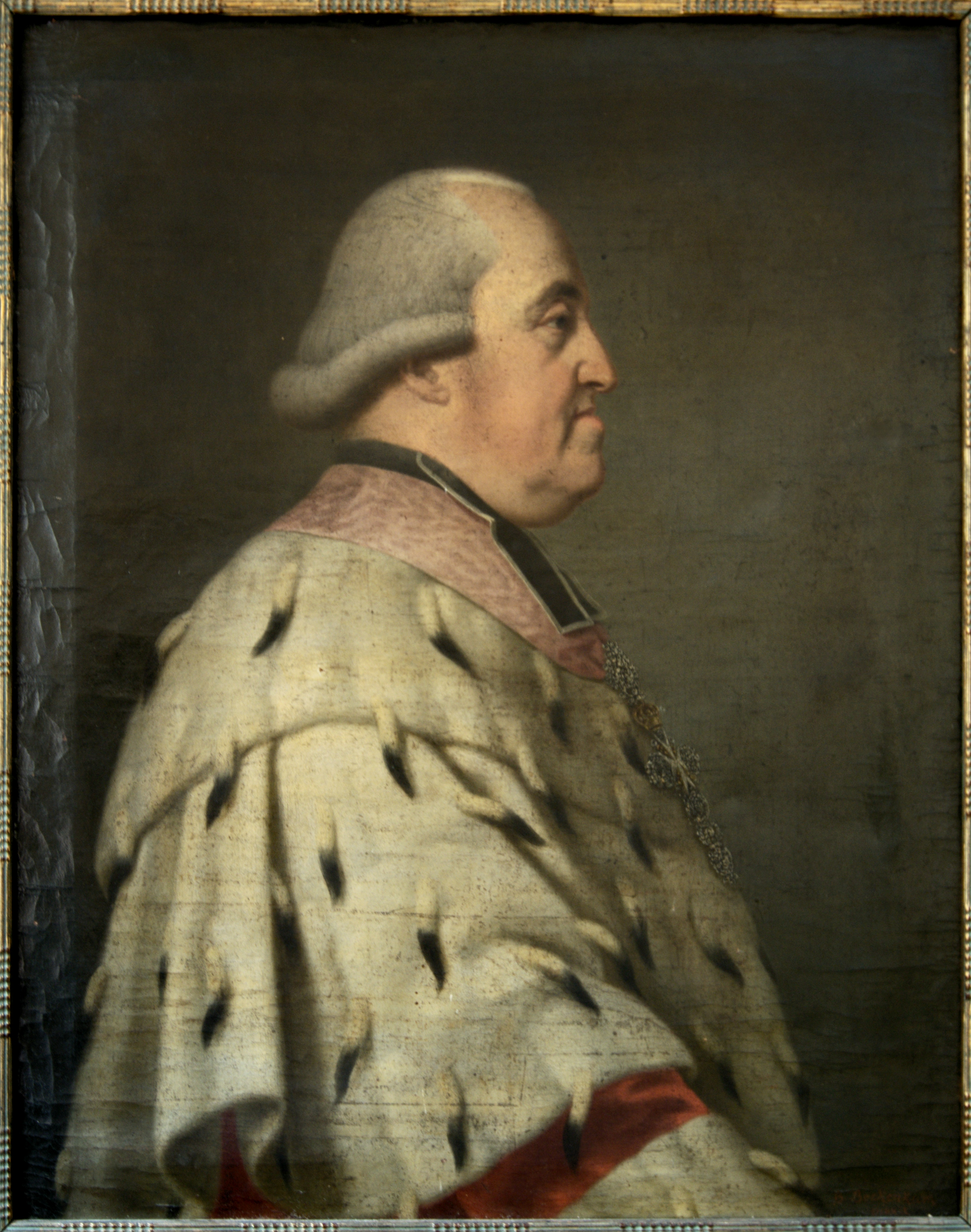 Portrait of Prince Clemens Wenceslaus of Saxony